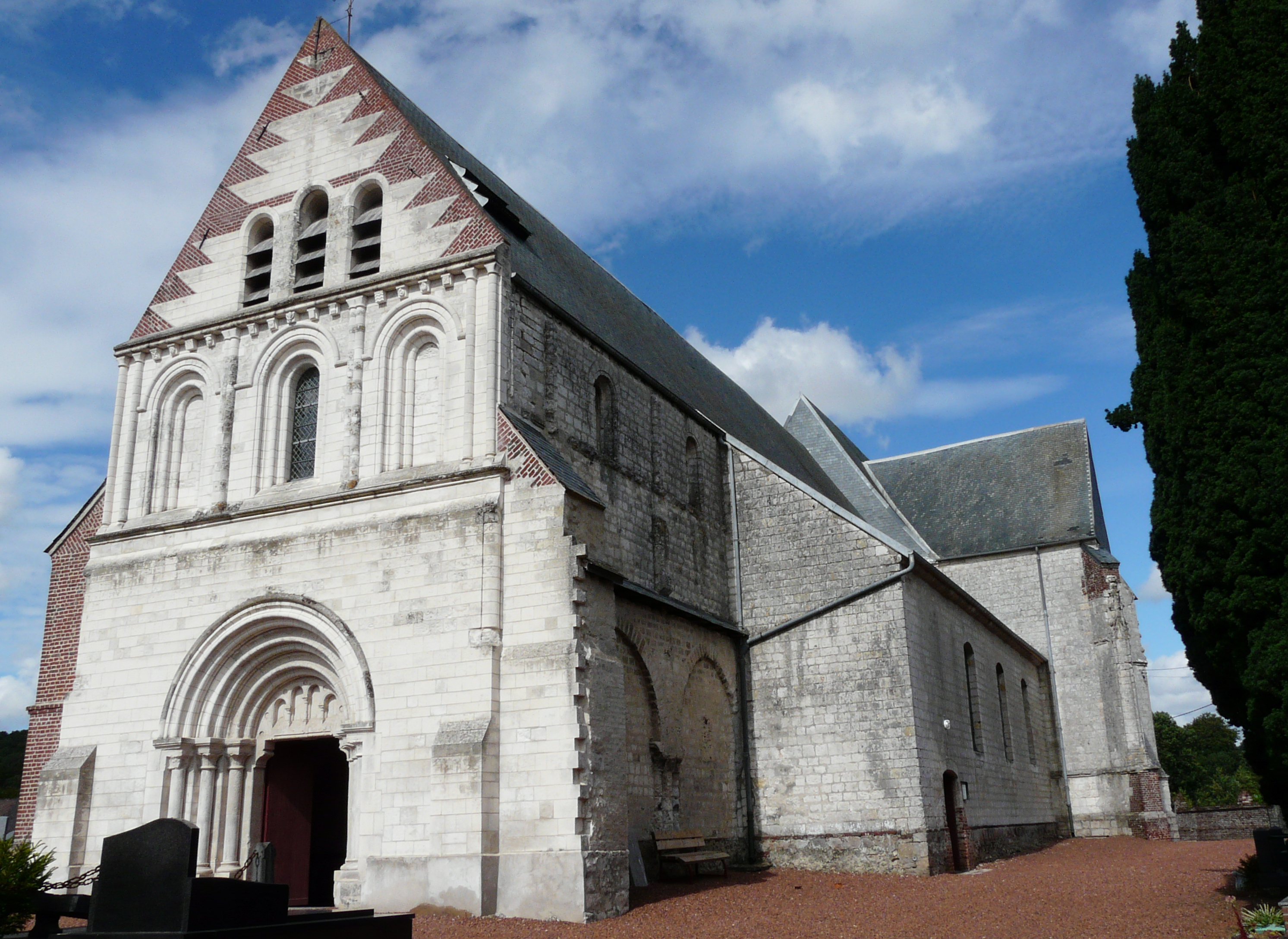 Saint Martin church in Heuchin, Pas-de-Calais, seen from the southwest towards the romanesque (XIIth) facade, in July 2009